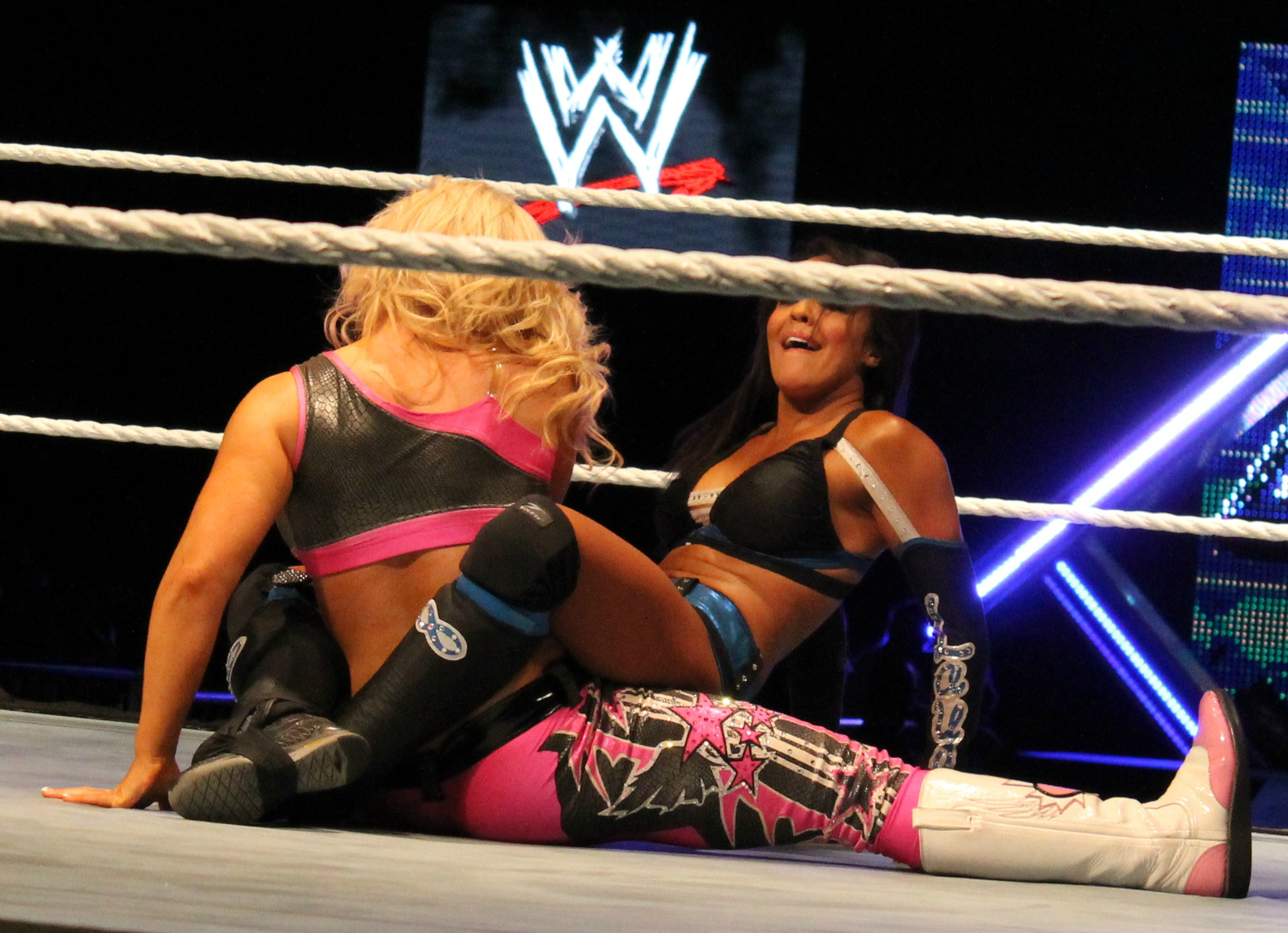 Layla applying the bodyscissors on Natalya during a live event in 2012.